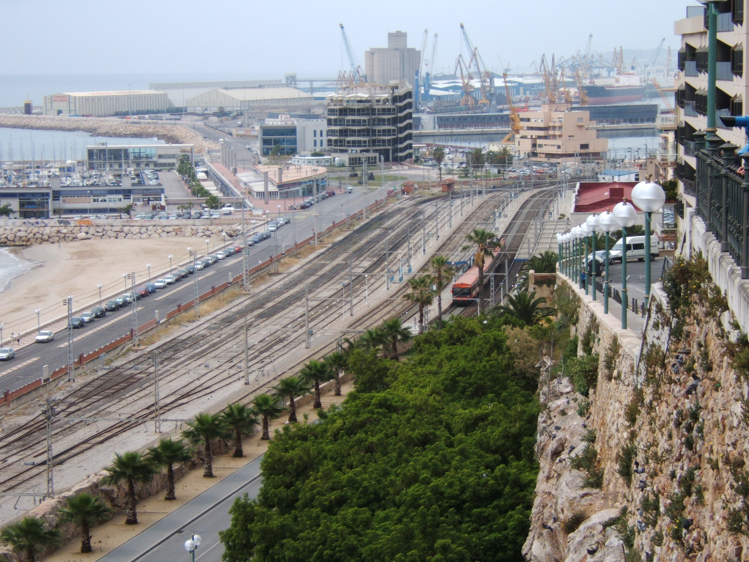 View off the station and the harbour